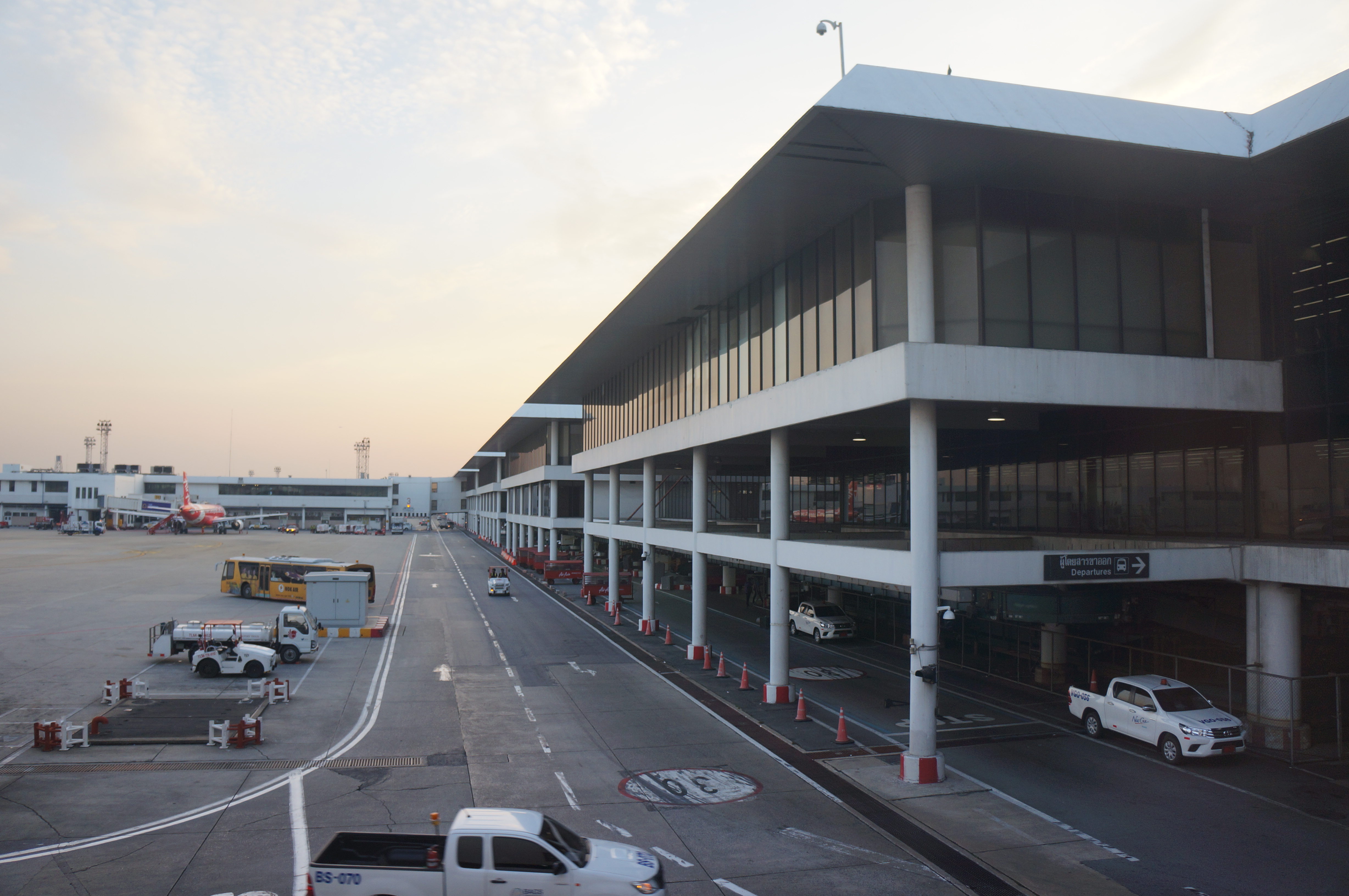 201701 International Terminal of DMK